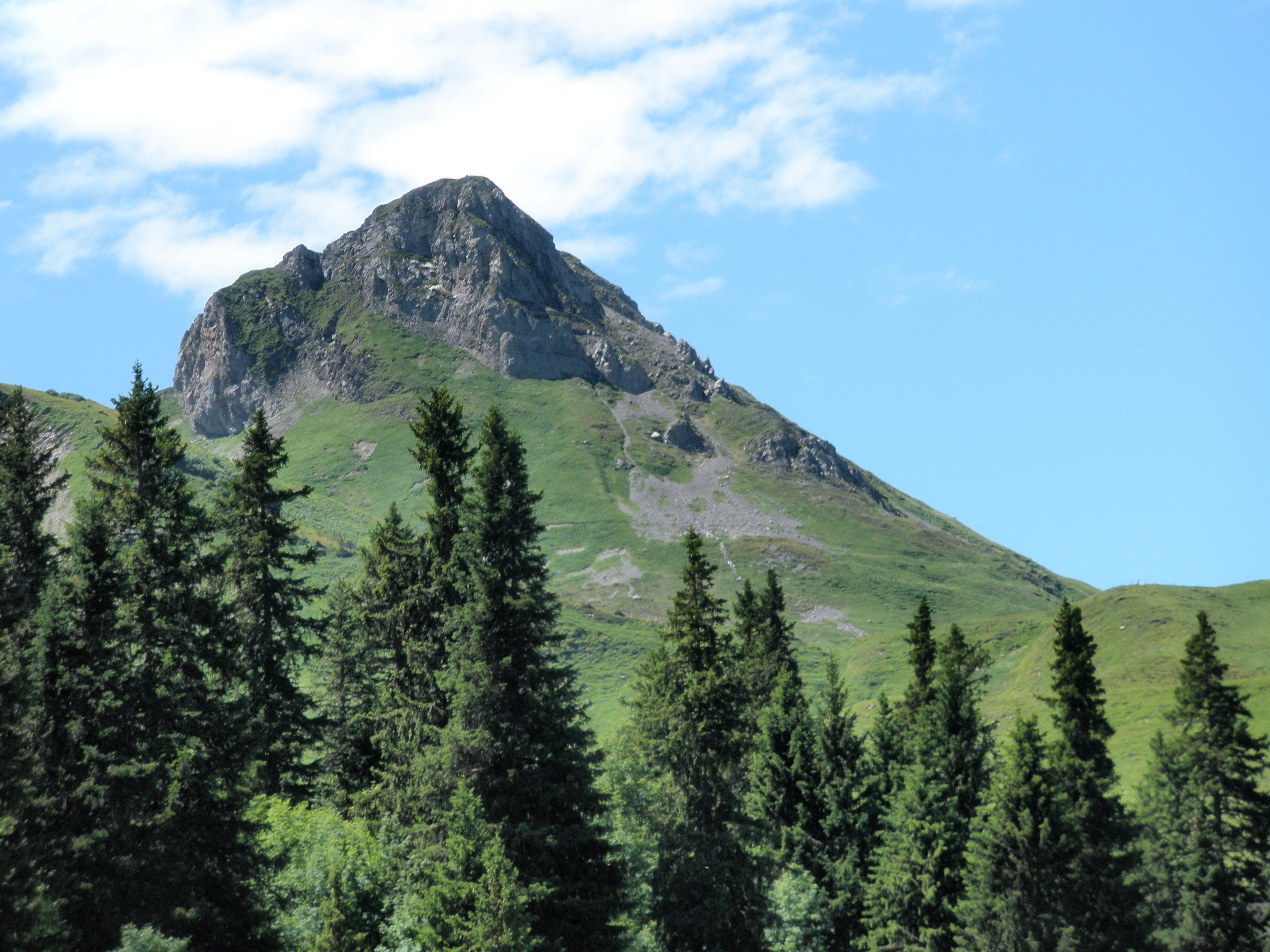 Regenboldshorn, mountain near Lenk, Switzerland